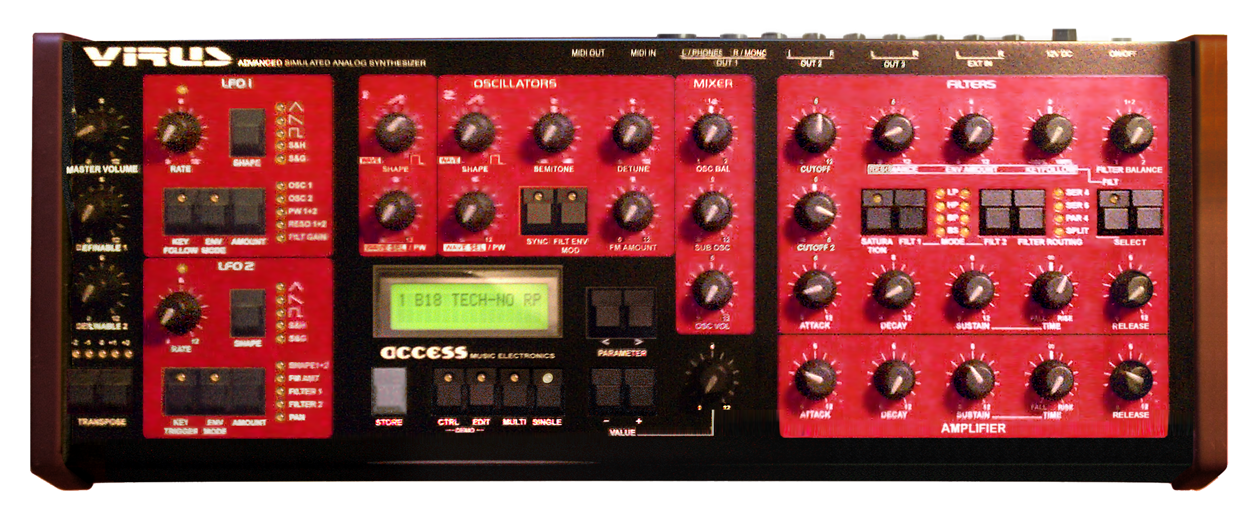 Access Virus A one of the best analog modeling synths ever made, rob papen is a god in the patch world